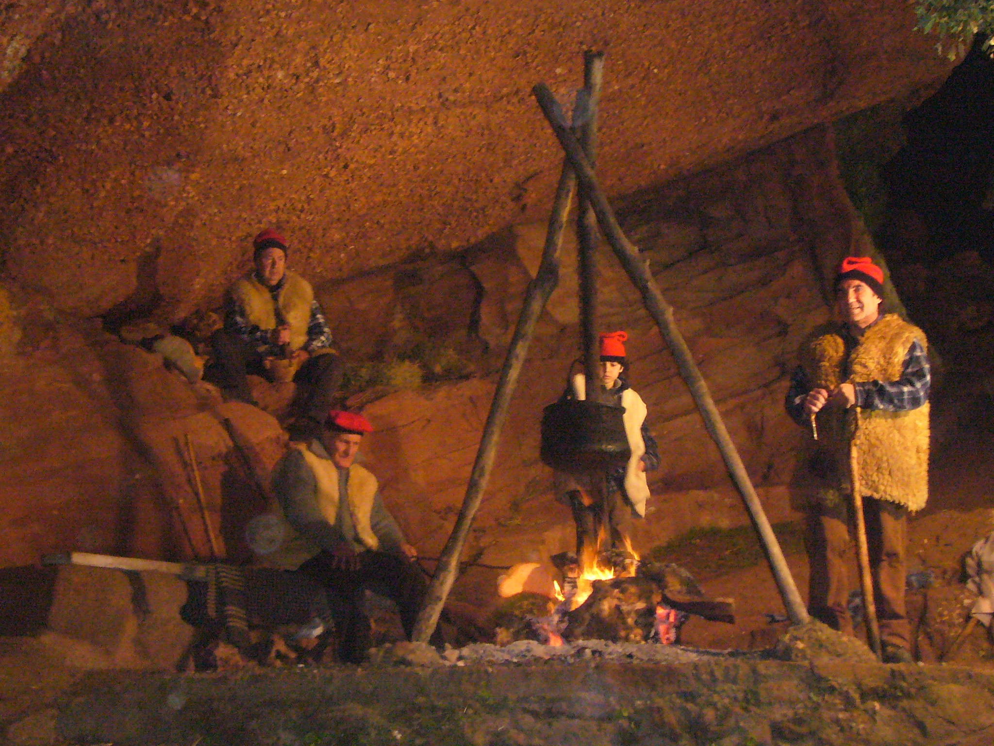 Pessebre Vivent de Corbera de Llobregat. Scene of shepherds cooking at night.